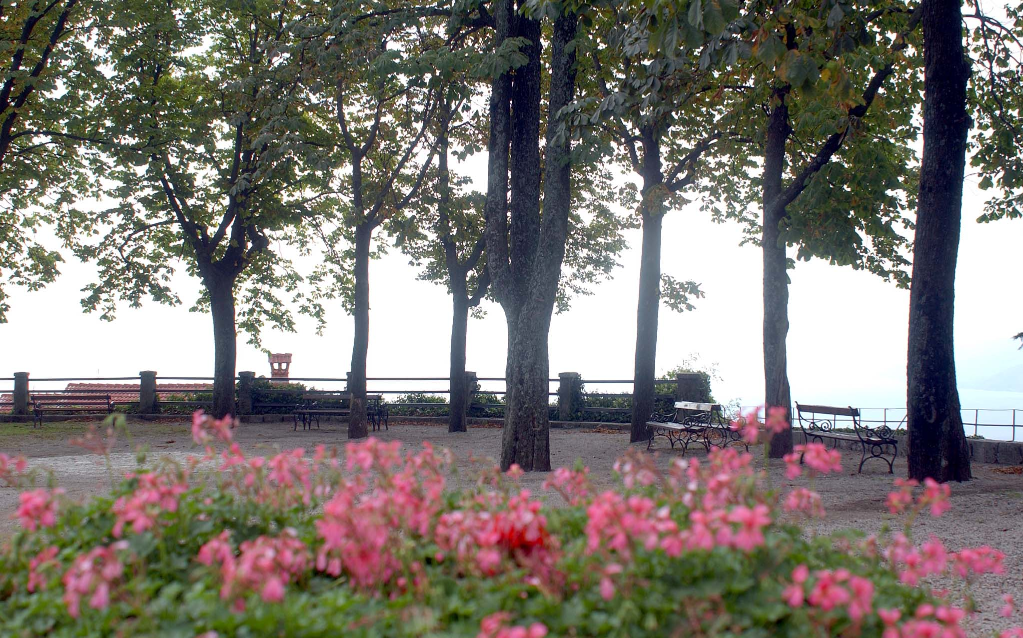 City of Kastav